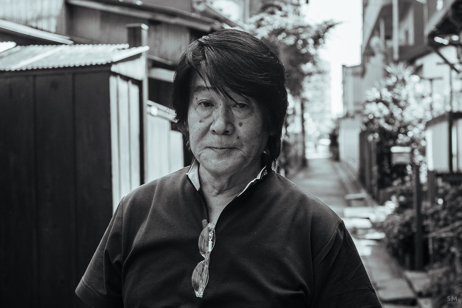 Portrait of Japanese photographer Daido Moriyama, Tokyo 2010